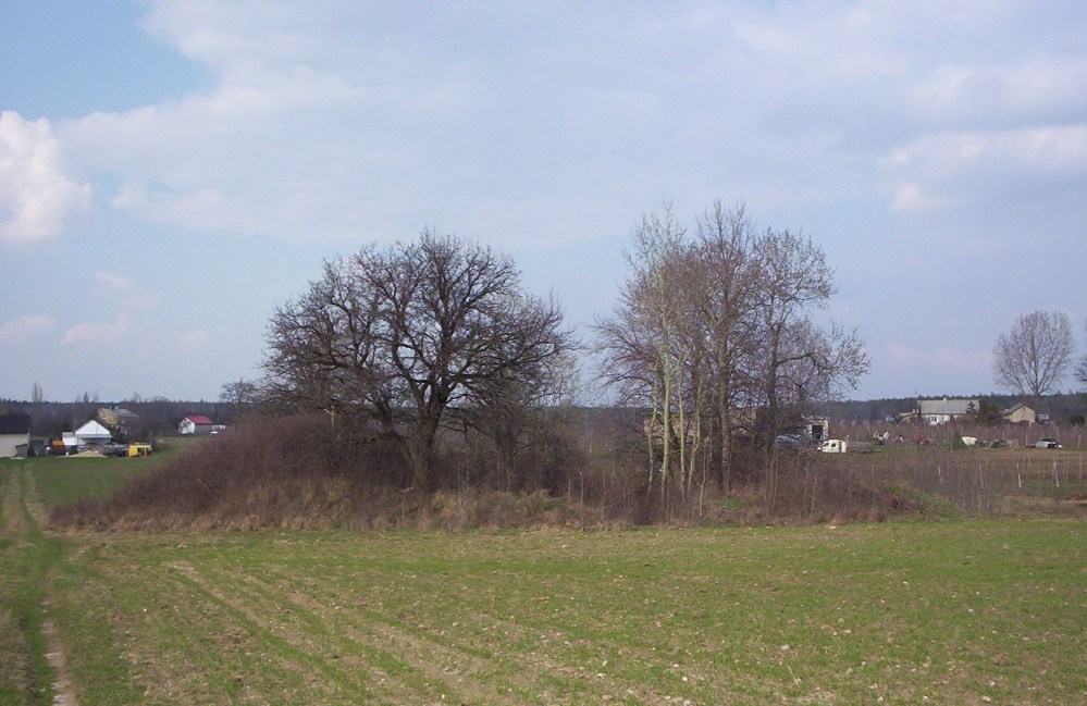 Place, where Mszczonów stone (Glacial erratic) is hidden, Zawady (powiat skierniewicki), Poland.